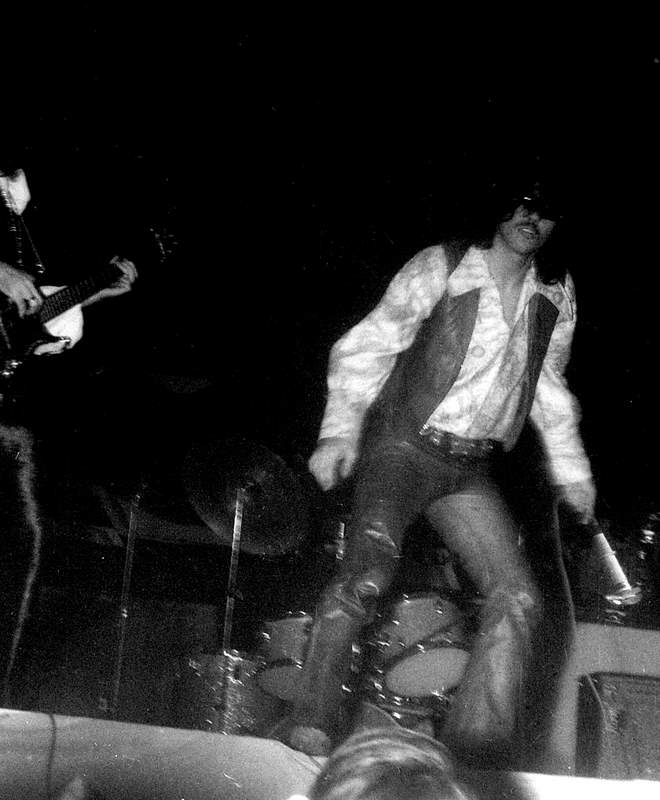 John Kay of Seppenwolf playing live in South Carolina.